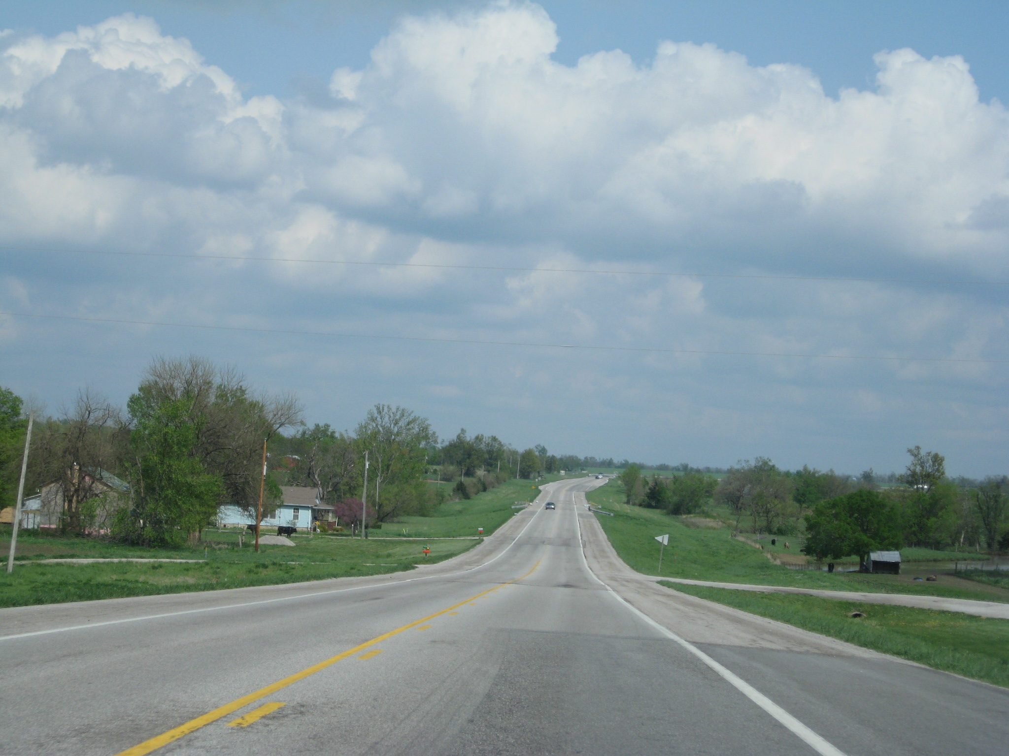 K-171, at about the halfway mark.